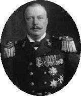 Prince Hendrik of the Netherlands (1876 – 1934)